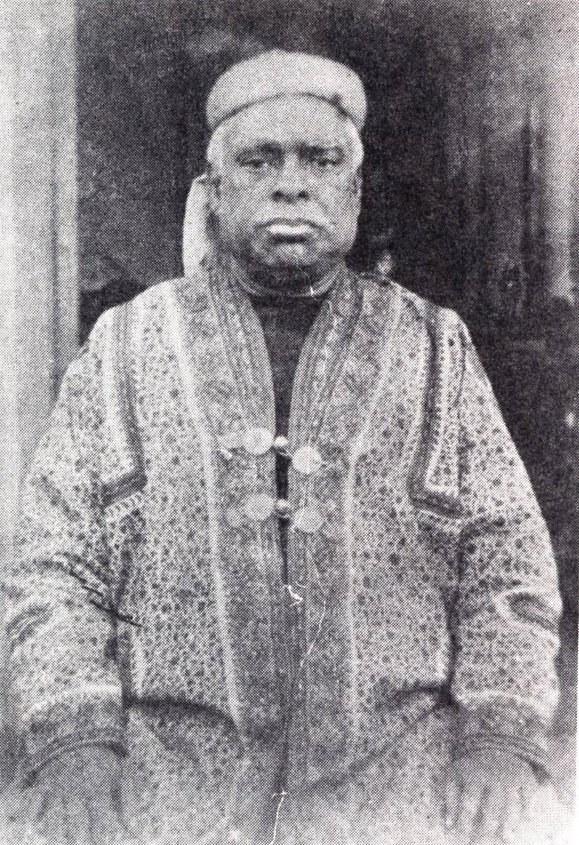 A photo of Bhaktivinoda Thakur in his official dress as the magistrate, in late 1880s-early 1890s